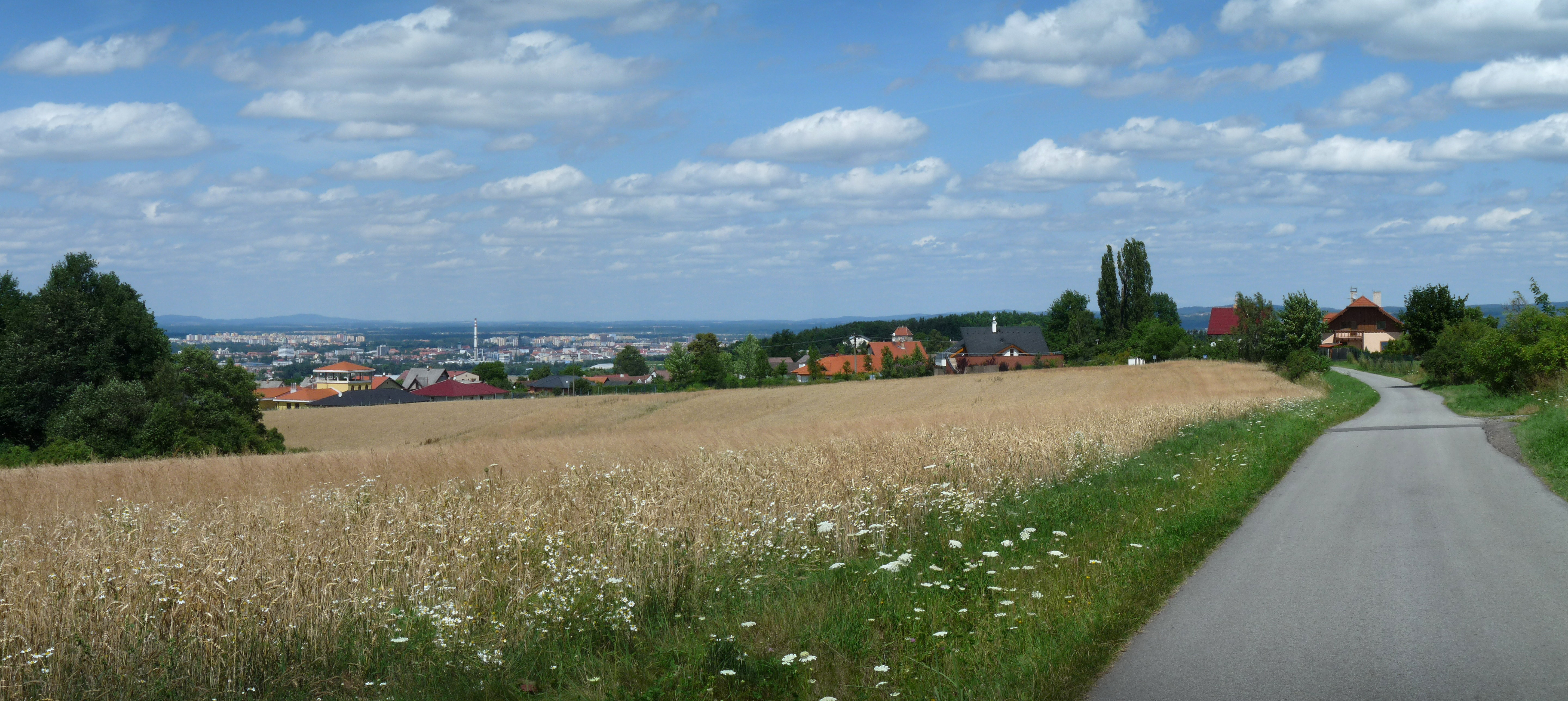 The village of Staré Hodějovice and the town of České Budějovice, Czech Republic as seen from the south-east. Česky: Pohled k obci Staré Hodějovice a městu Českých Budějovice od jihovýchodu.